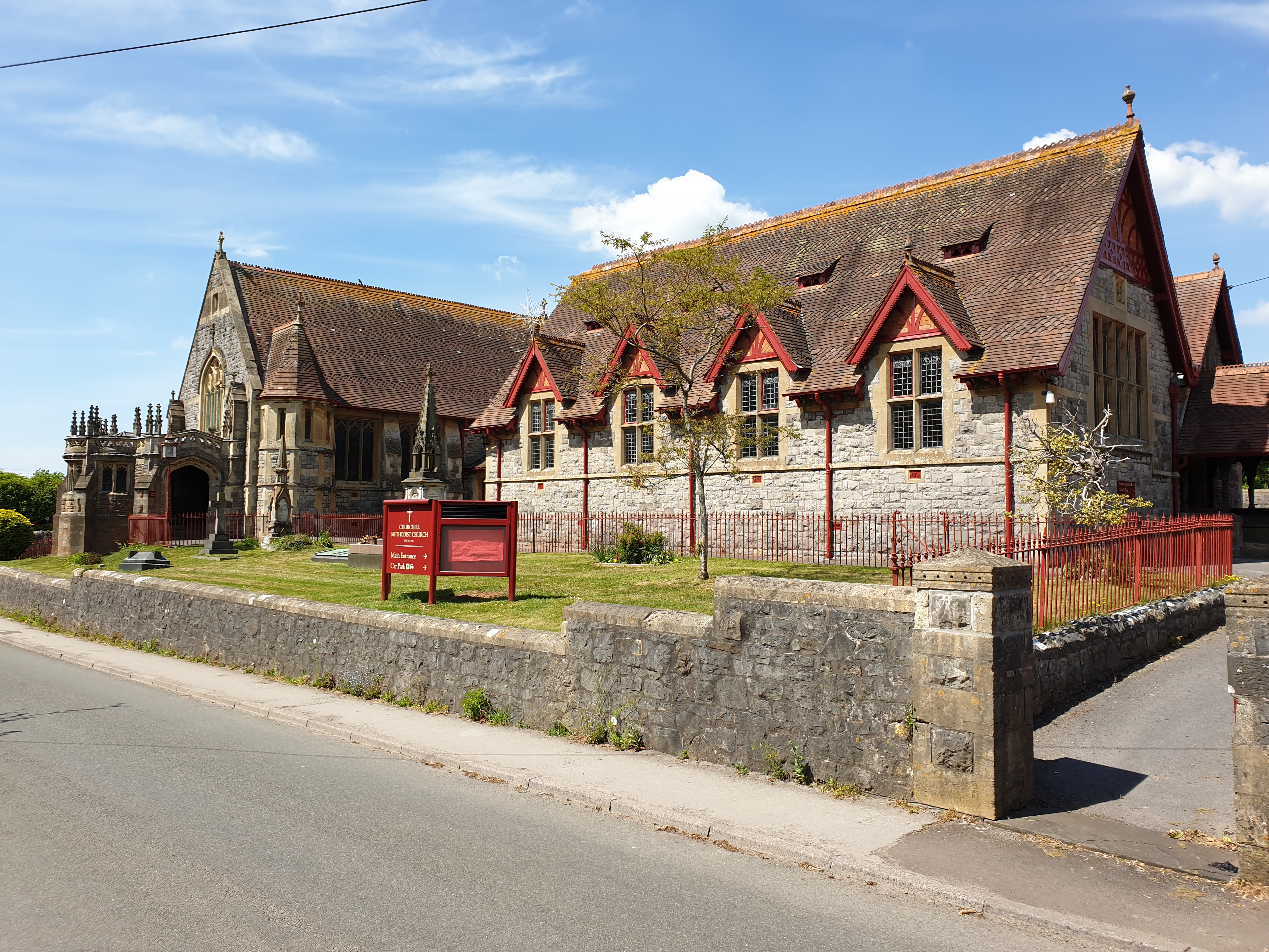 The church was built in 1880 by Sydney Hill, a local business man and benefactor, as a memorial to his wife and both are interred in a mausoleum along the front of the building.